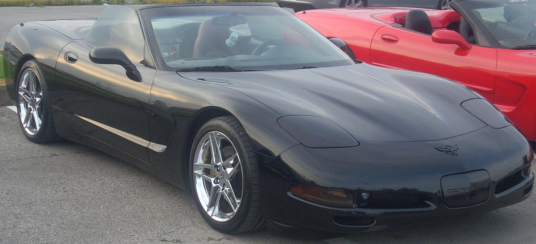 Chevrolet Corvette photographed in Laval, Quebec, Canada at Les chauds vendredis 2010.